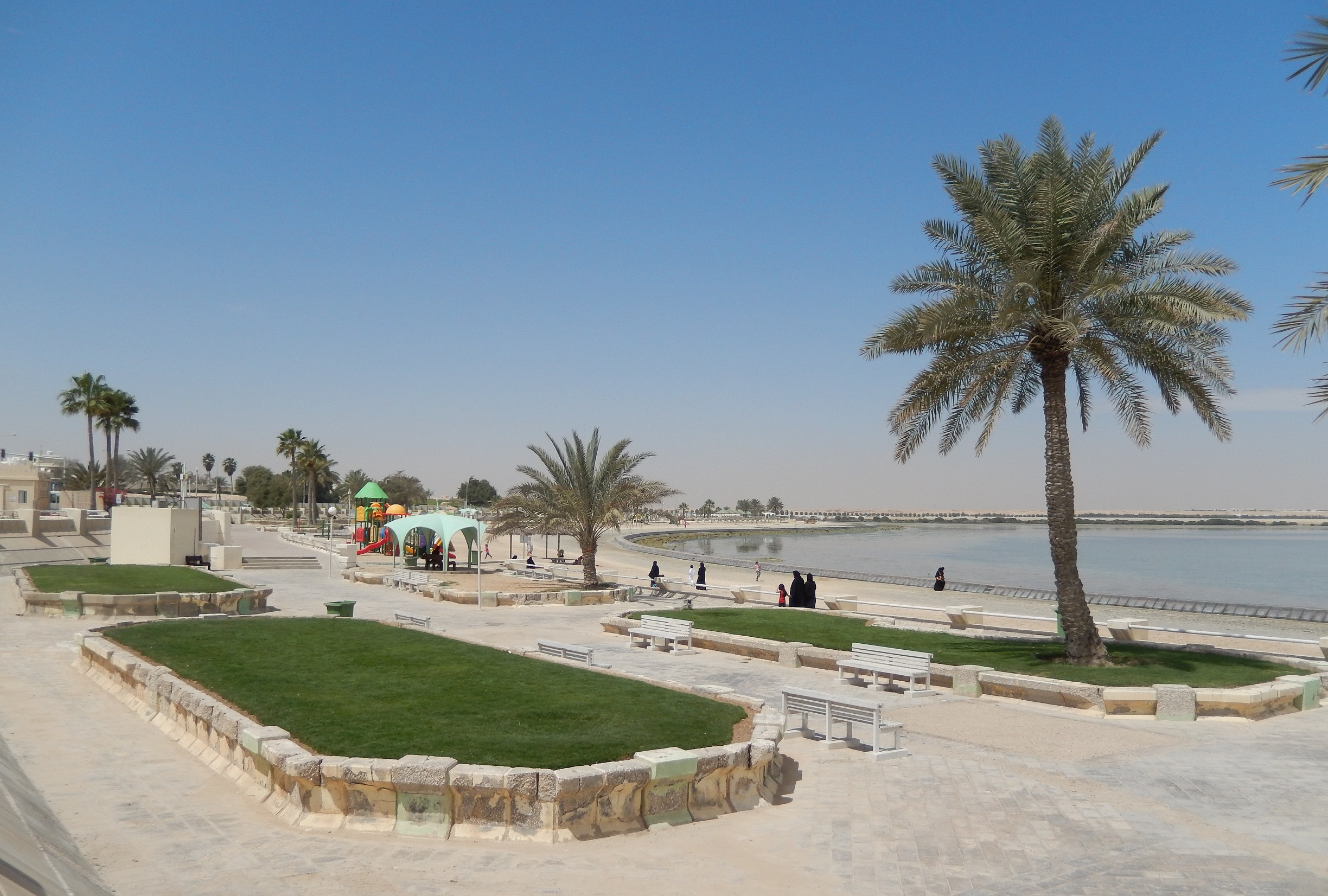 The sea front along the corniche in Al Khor, Qatar.